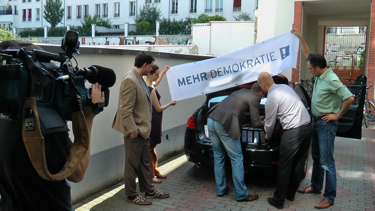 On June 29th 2012 colleagues of german non-governmental organization Mehr Demokratie in Berlin are loading subscriptions for complaint of unconstitutionality against ESM and Fiscal Compact for presentation at Federal Constitutional Court in Karlsruhe. From right: Kurt Wilhelmi, Oliver Wiedmann, Roman Huber, Anne Dänner, Charlie Rutz